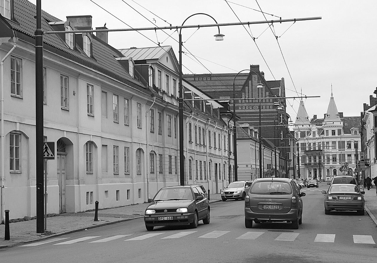 Trolleybus wires in the city centre of Landskrona, Sweden